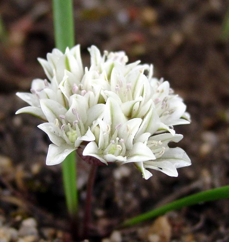 Allium brandegeei orth var Allium brandegei. City of Rocks National Preserve, Idaho, USA.